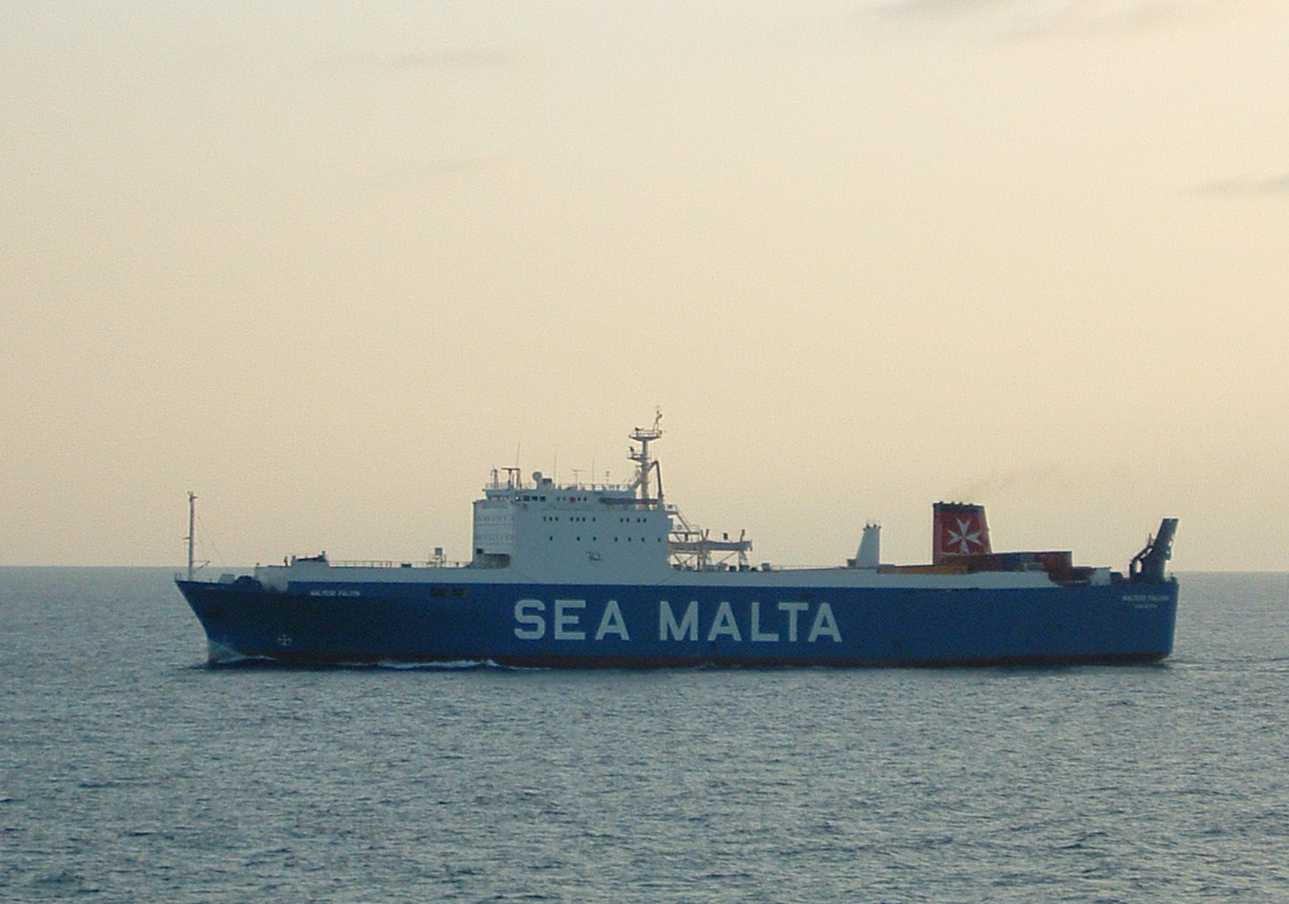 RoRo Maltese Falcon IMO Number: 7705714 MMSI Number: 248453000 Callsign: 9HEU6 Length: 148 m Beam: 24 m